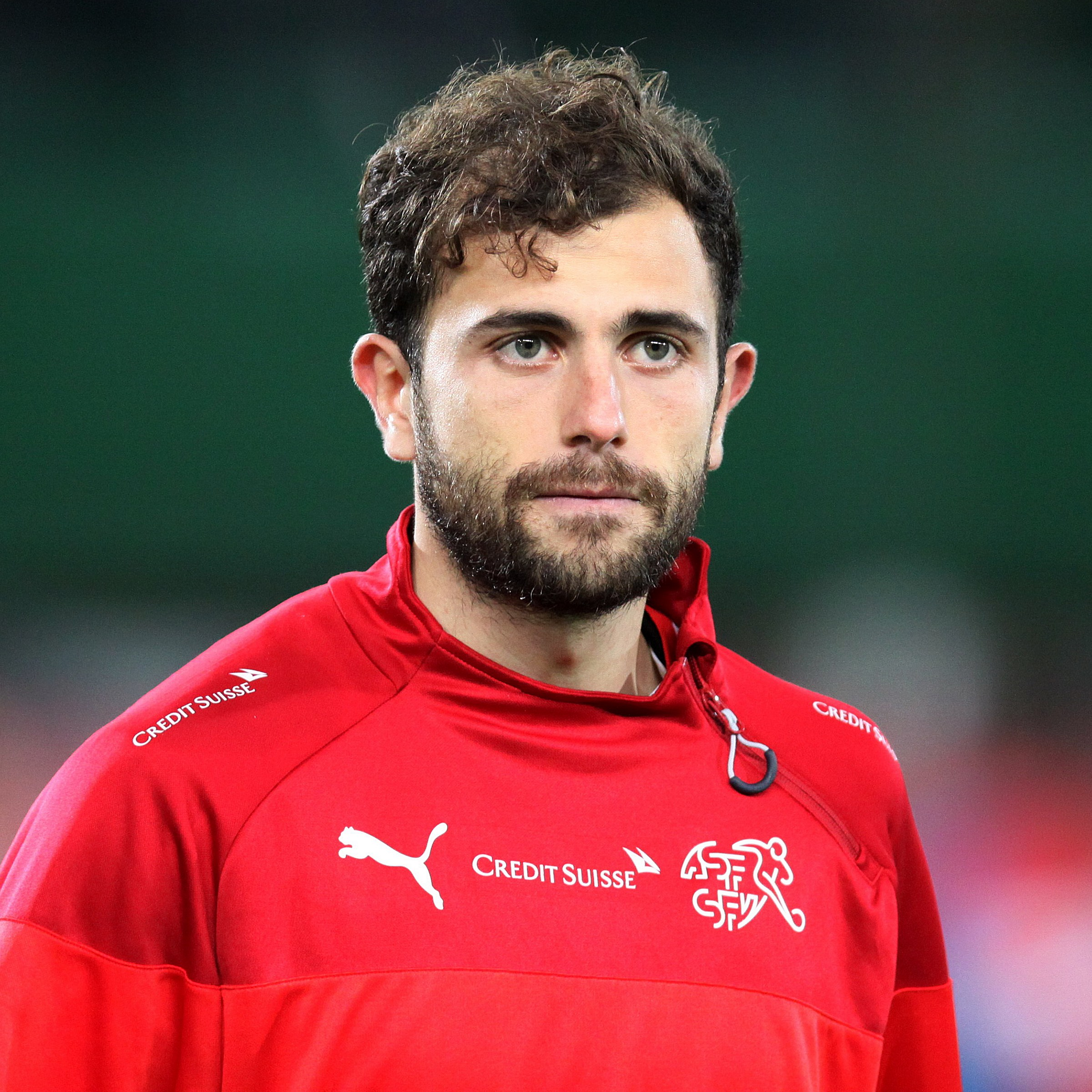 Friendly match – Austria (red shirts) vs. Switzerland (white shirts) 1-2 (1-2) – 2015-11-17 in Vienna, Ernst-Happel-Stadion – The photo shows Admir Mehmedi (Switzerland).